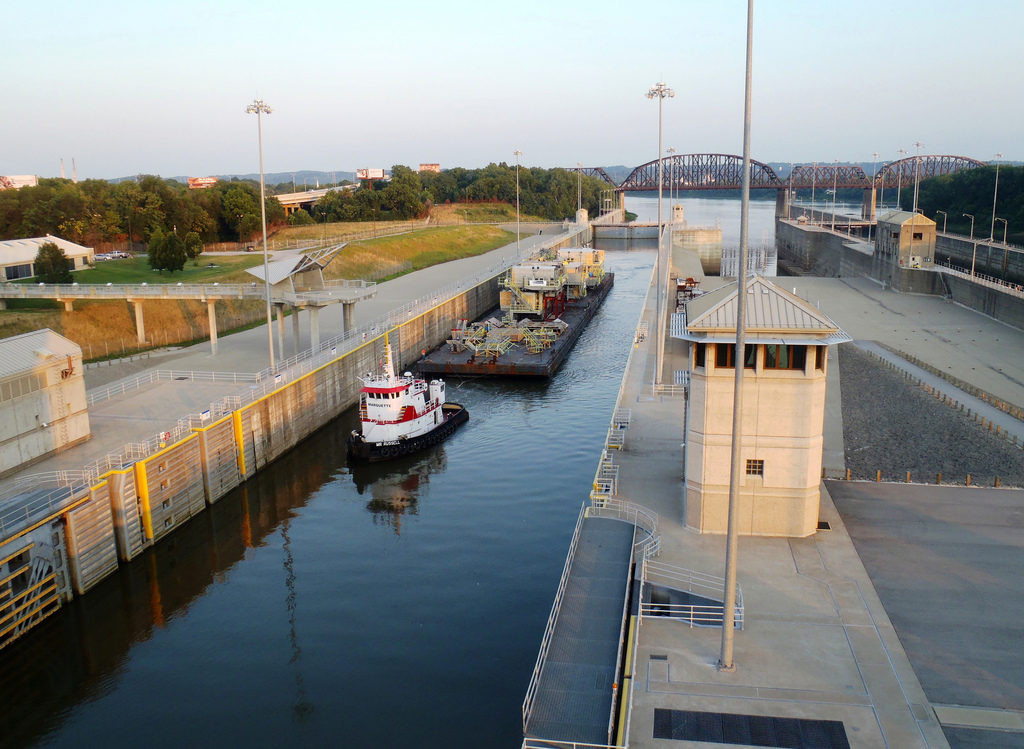 LOUISVILLE, Ky. — A tugboat, the M/V Mr. Russell, pulls a barge through the chamber at McAlpine Locks and Dam. (U.S. Army Corps of Engineers photo by Charles Gauld)